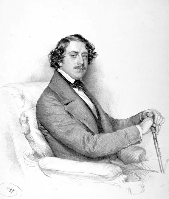 Italian opera singer Filippo Colini (1811-1863) by Joseph Kriehuber (1800-1876).